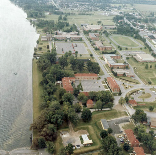 Aerial View Royal Military College Saint Jean